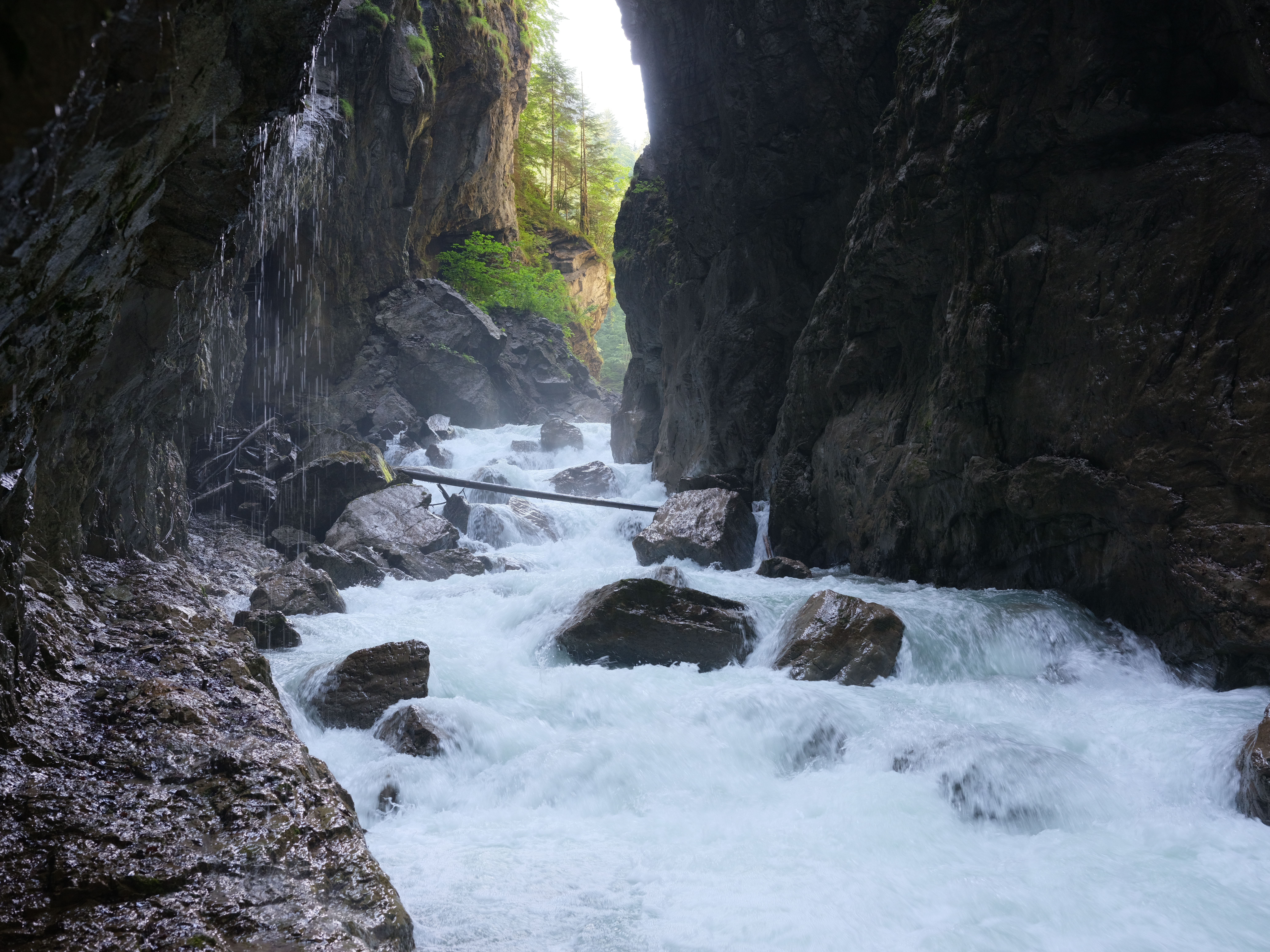 Upper end of Partnachklamm-gorge